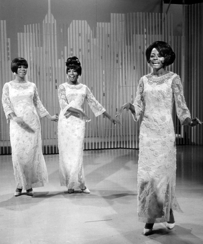 Publicity photo of the music group The Supremes from the television program The Ed Sullivan Show. L-R: Florence Ballard, Mary Wilson, and Diana Ross.